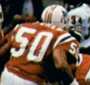 New England Patriots' right inside linebacker Larry McGrew pictured in a defensive play against the Chicago Bears in Super Bowl XX. }